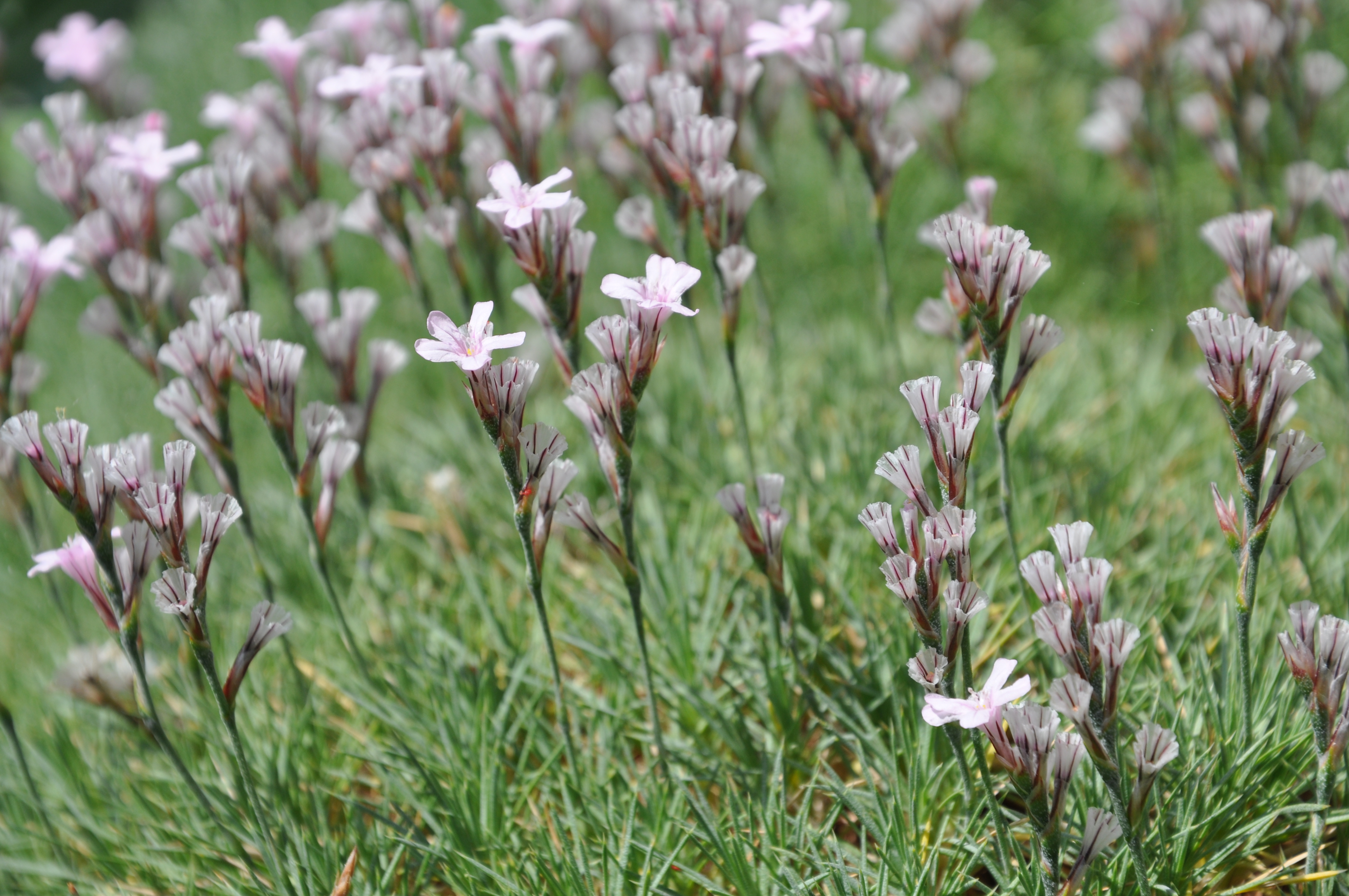 Prickly Dianthus